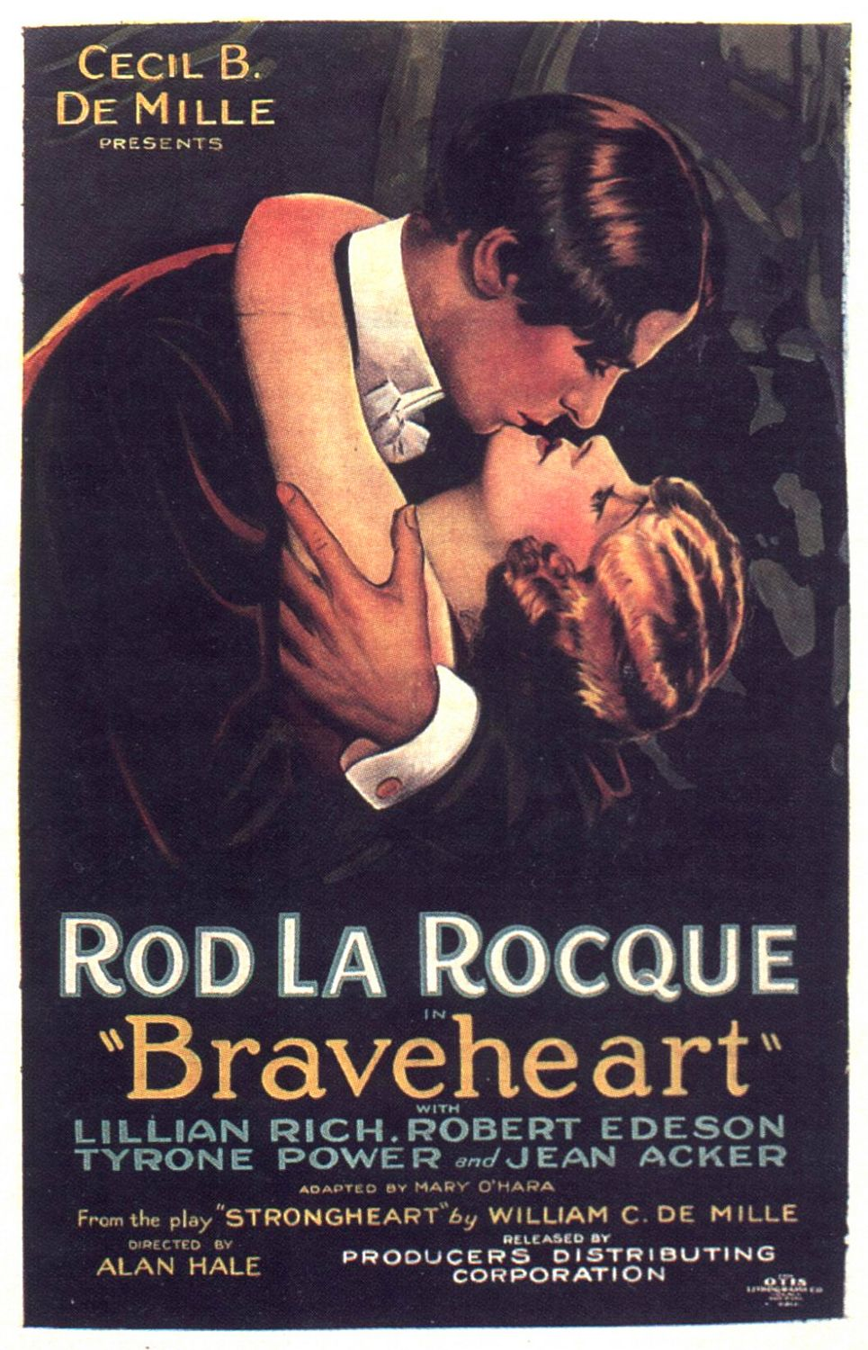 Braveheart (1925) film poster.